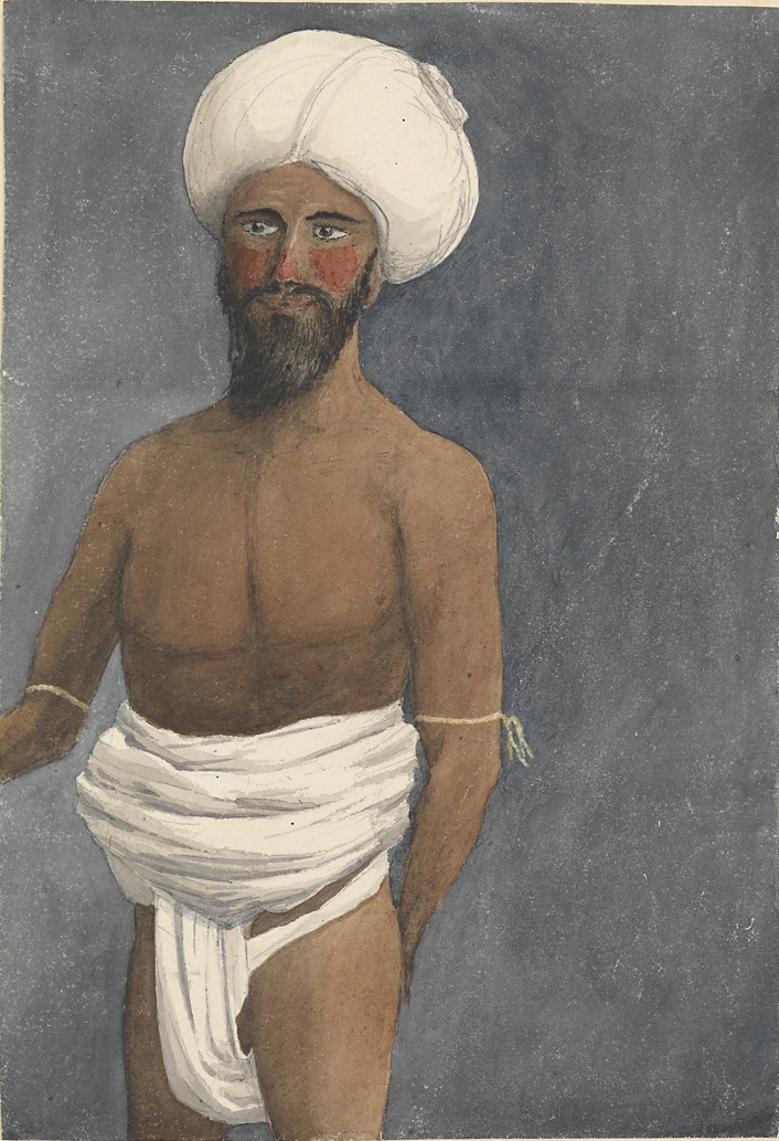 Seru Thakombau [Seru Epenisa Cakobau], 1815 - 83; King of Fiji, 1852-74.